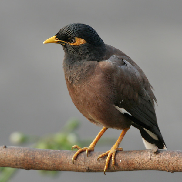 Common Myna Acridotheres tristis (This bird is called "LALI" in Pakistan).